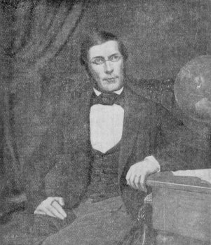 M. A. Castrén, a Finnish philologist and professor